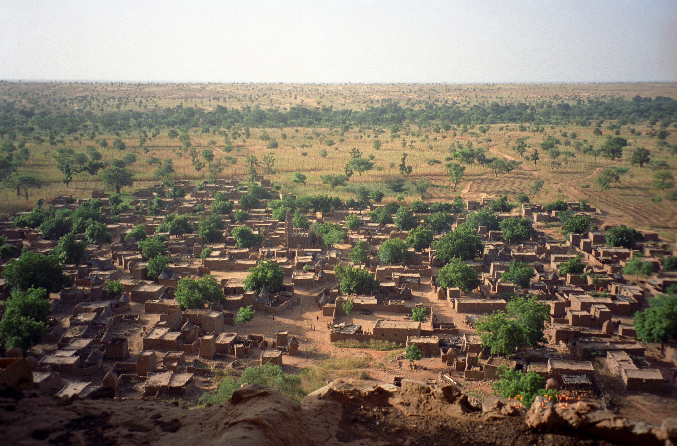 another view from old Teli. that's new teli in the foreground, then the dogon valley stretching out beyond that